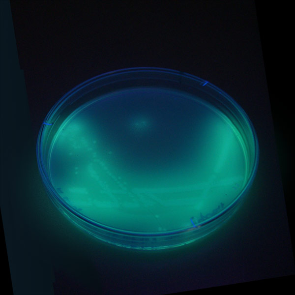 P. aeruginosa with fluorescent pigment under UV-light on cetrimid agar-agar.